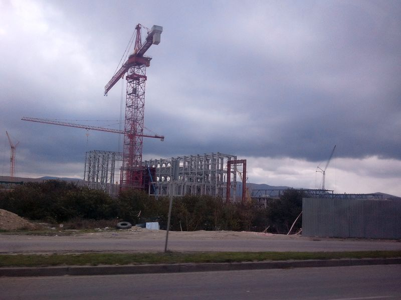 natural gas-fired power plant in Sevastopol